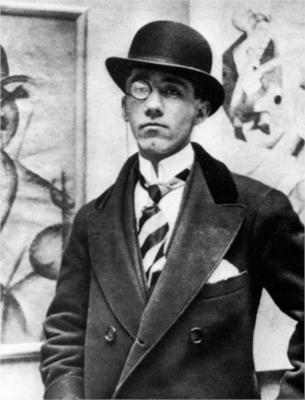 Gino Severini in 1913 at the opening night of his exhibition at the Marlborough Gallery, London.